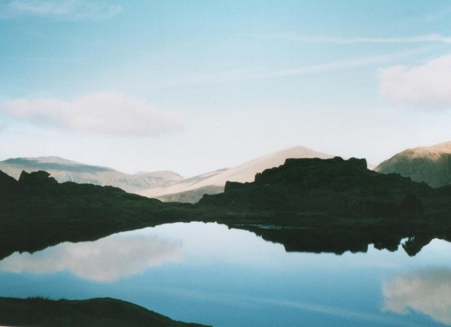 Llyn Glas Lives Up to its Name. 'Glas' in modern Welsh means 'blue'.